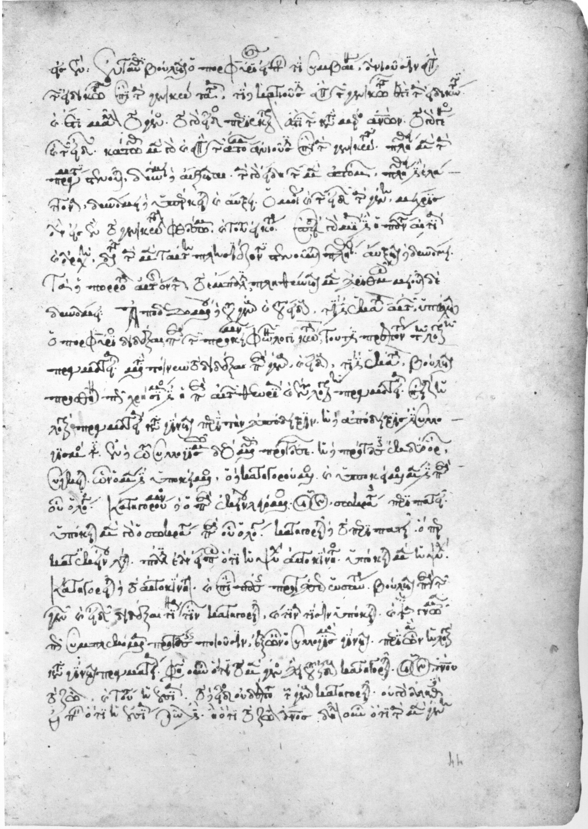 Ammonius Hermiae, Commentary on Porphyry’s Isagoge. Manuscript Florence, Biblioteca Medicea Laurenziana, Plut. 71,35, fol. 44r.